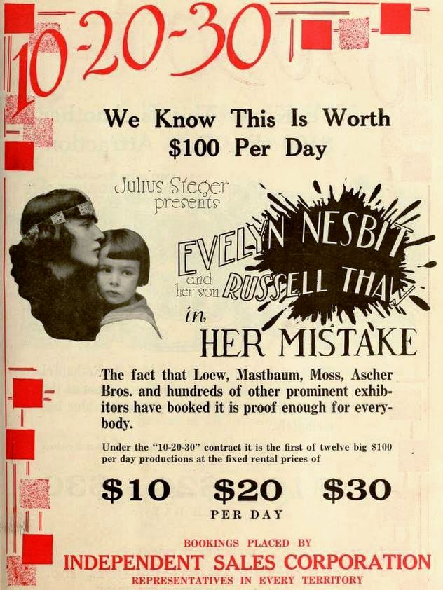 Ad for the American film Her Mistake (1918) with Evelyn Nesbit and her son Russell William Thaw, on page 151 of the January 11,1919 Moving Picture World.